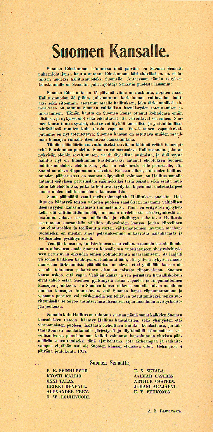 Suomen kansalle ("to the people of Finland"), the declaration of independence by the senate of Finland, given to the parliament December 4, 1917.